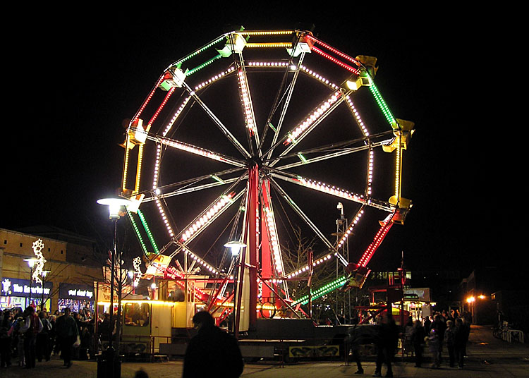 Ferris wheel at a fair in Yate, Bristol, England